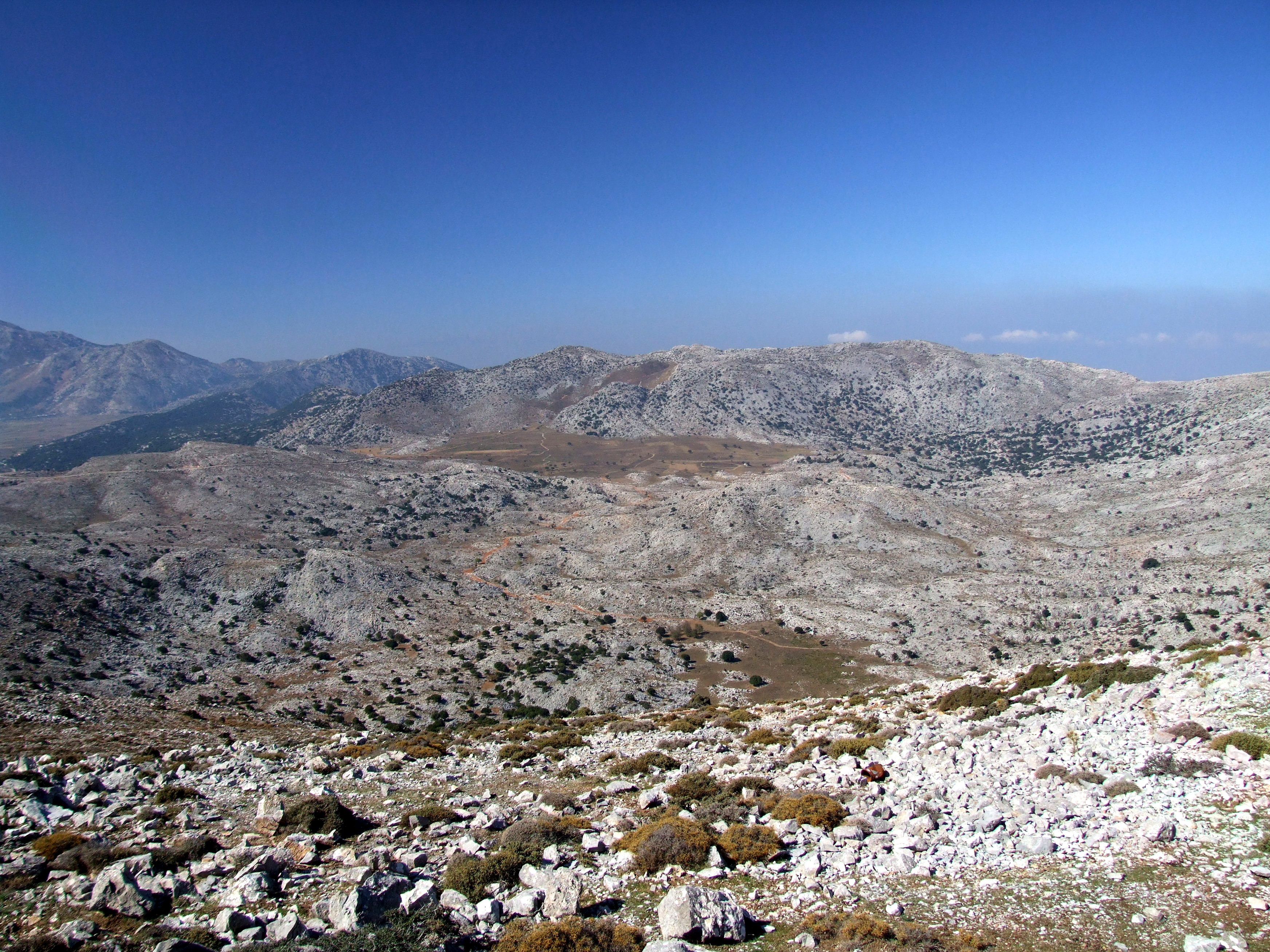 This is a photography of Natura 2000 protected area with ID GR4320002